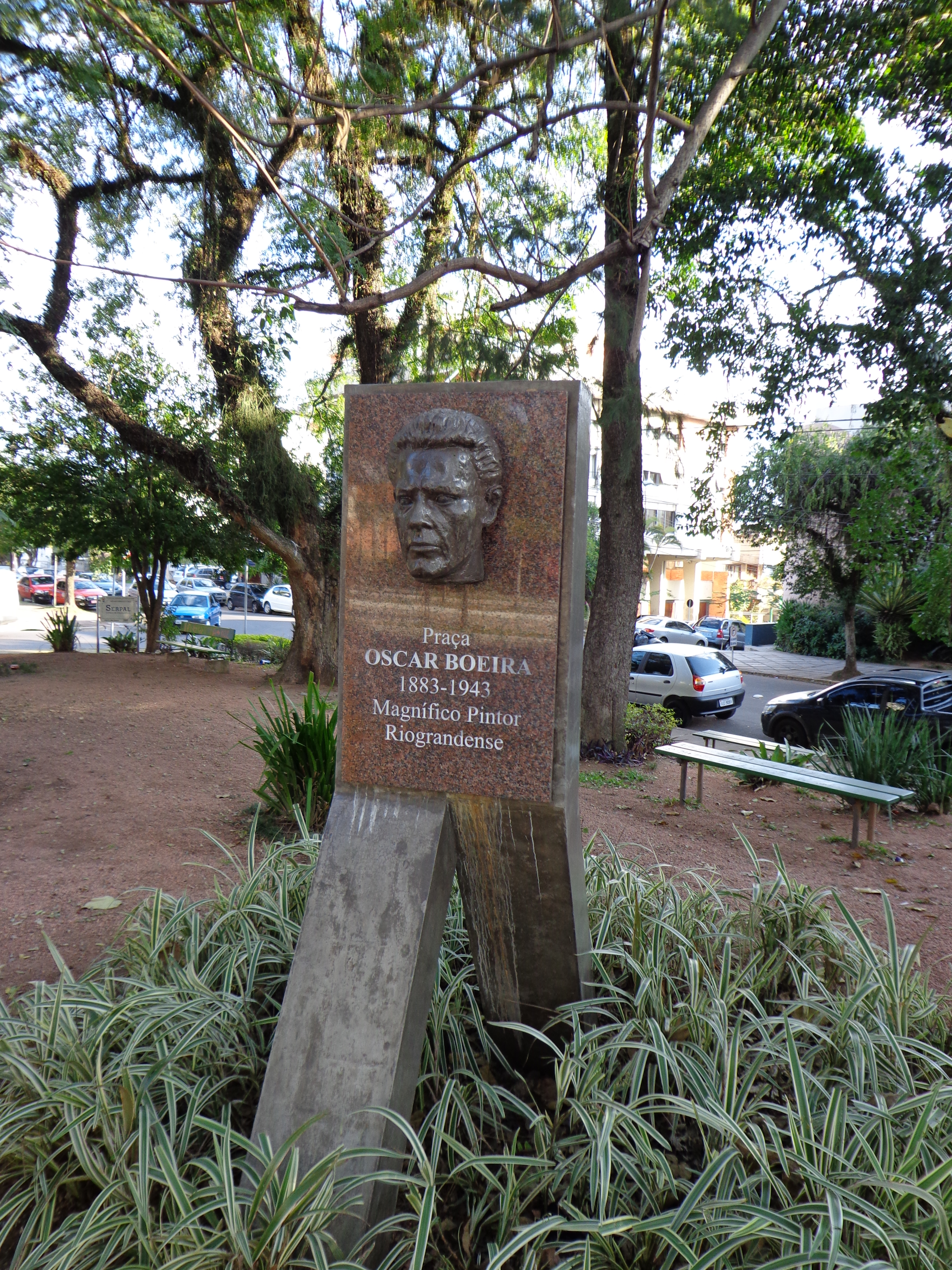 Oscar Boeira Square, in Porto Alegre, Brazil.